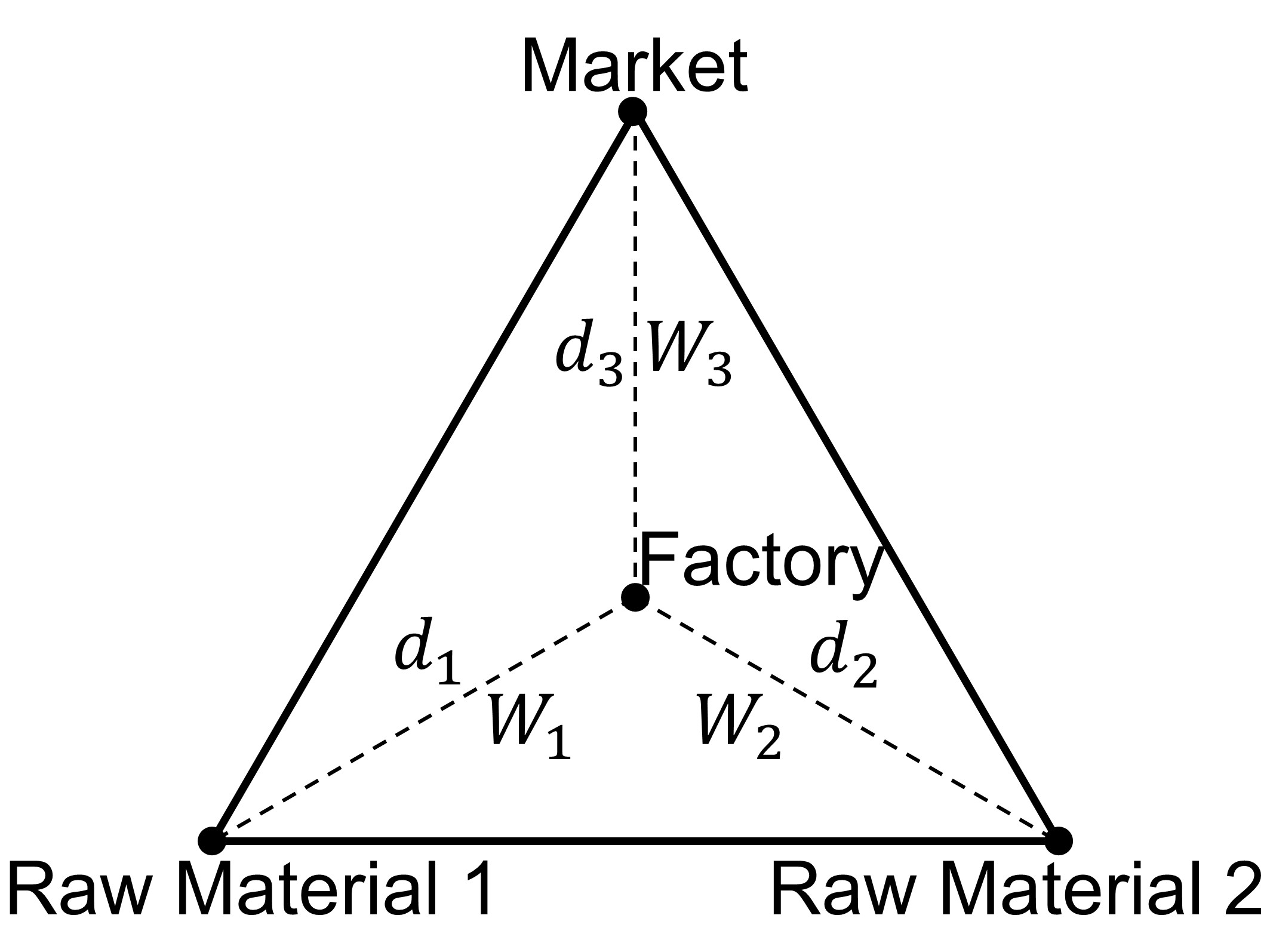 location triangle by Alfred Weber. This is a triangle, whose apexes are 2 raw material sites and 1 market. And the distances between each apexes and the factory are defined as d 1 {\displaystyle d_{1 , d 2 {\displaystyle d_{2 , and d 3 {\displaystyle d_{3 . The weights of raw material 1, 2 and the production are W 1 {\displaystyle W_{1 , W 2 {\displaystyle W_{2 , and W 3 {\displaystyle W_{3 . If the transport cost is minimised, the factory should be located where d 1 W 1 + d 2 W 2 + d 3 W 3 {\displaystyle d_{1}W_{1}+d_{2}W_{2}+d_{3}W_{3 is the minimum possible.